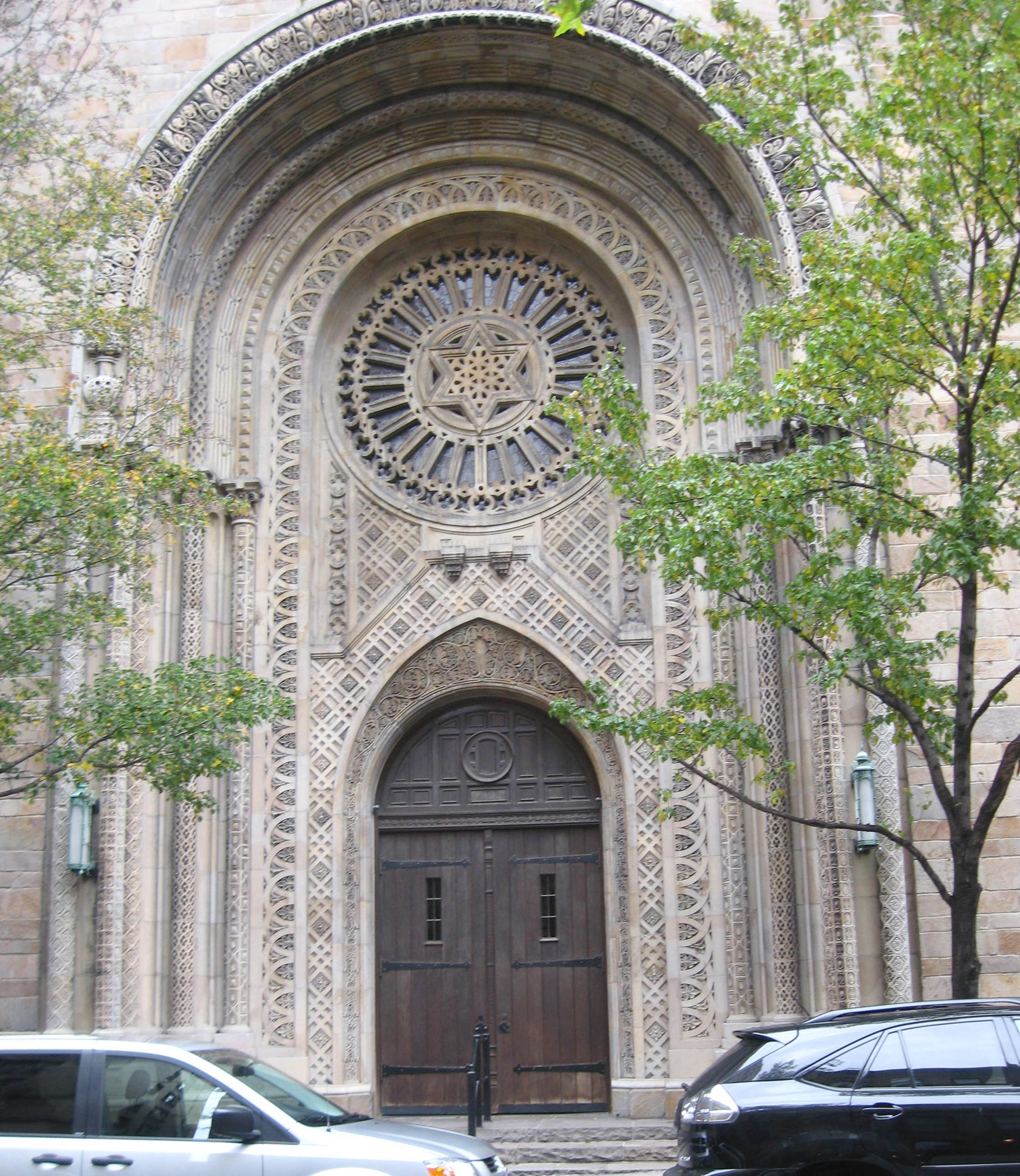 Looking north across W88th at doorway of B'nai Jeshurun on a cloudy afternoon.